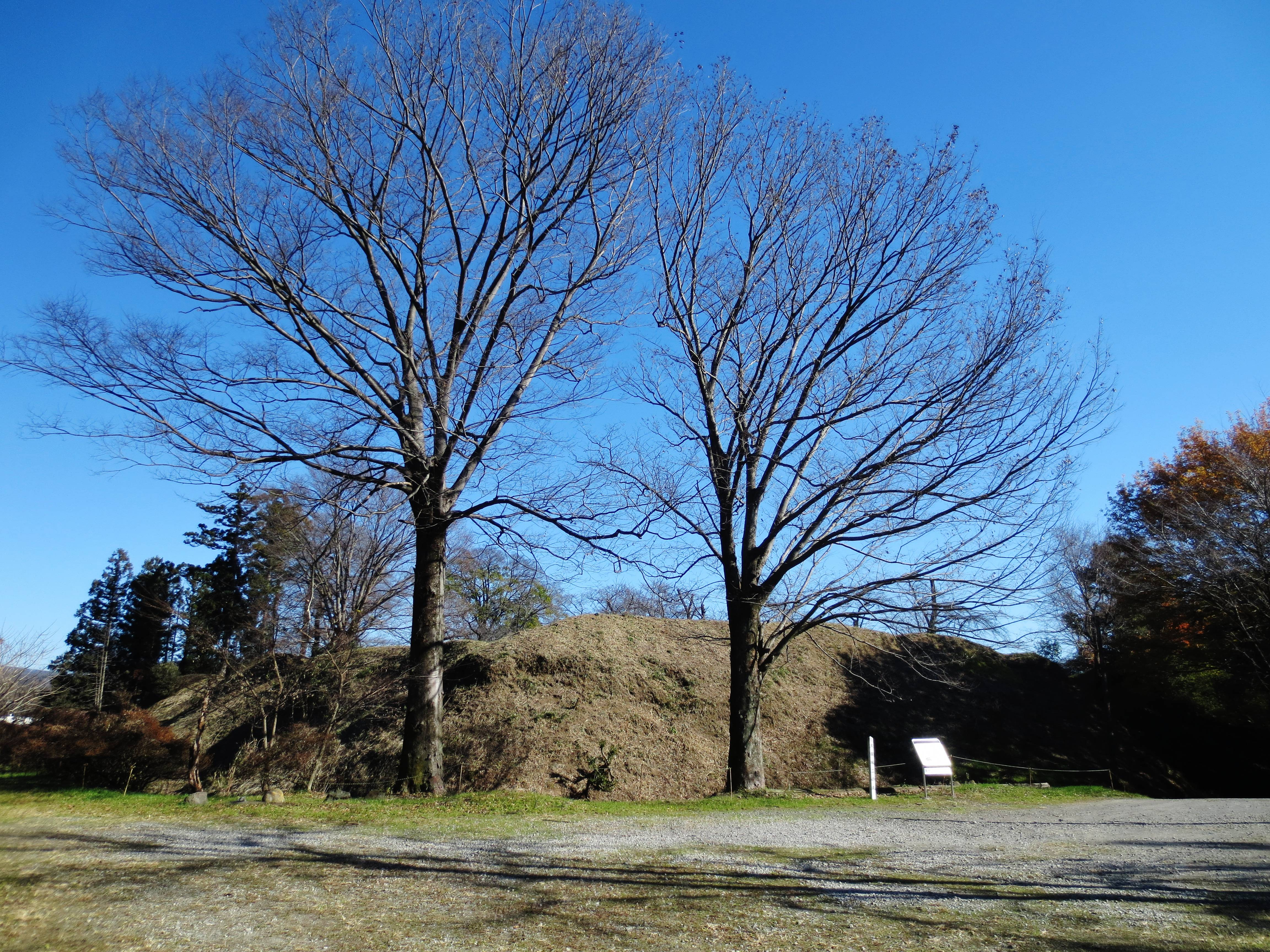 Ogo Castle.